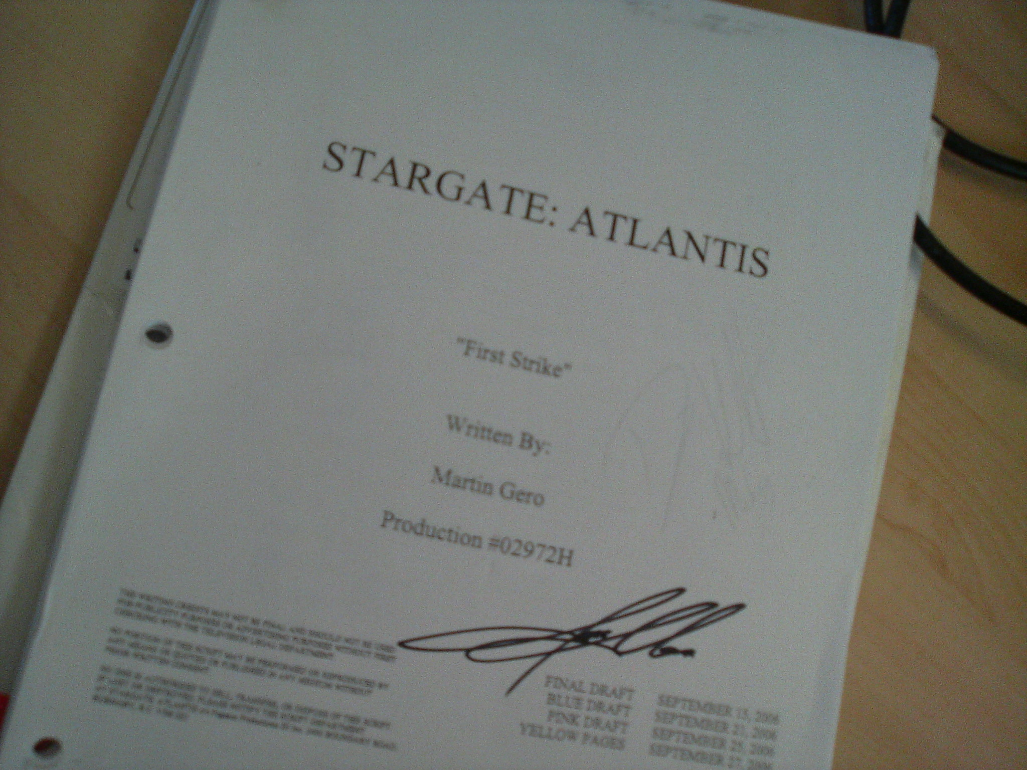 Stargate Atlantis script, won at contest.